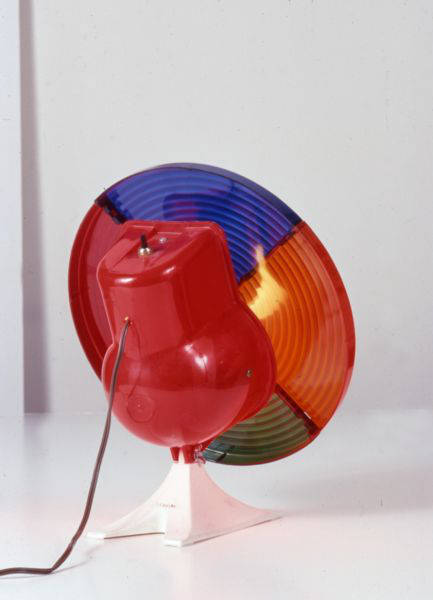 "Real or artificial? This question was faced by many American families in the late 1950s through the '60s when decorating for the holiday season. Advertisers extolled the virtues of low-maintenance artificial Christmas trees over cut trees: no messy needles, no allergies, no drying out & creating a fire hazard & a lengthened display time. Although the aluminum tree did not use electric light bulbs, a free-standing electric wheel placed nearby would rotate & reflect seasonal colors-usually blue, green, gold & red. Besides the standard silver (or aluminum) color, artificial trees could be purchased in blue, pink, white or "flocked" green. Regardless whether it was real or artificial, the Christmas tree would yearly assume a prominent location in the home-usually in the living room near a "picture window" where it could be seen by the public as well as enjoyed by the family."